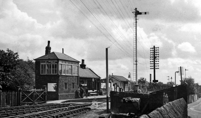 Bromley Cross Station. View southward, towards Bolton; ex-Lancashire & Yorkshire secondary main line, (Manchester) - Bolton - Blackburn.